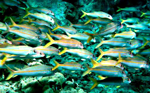 School of yellowfin goatfish (Mulloidichthys vanicolensis). Touched up image from US National Park Service. Photo by Bryan Harry. Yellowfin goatfish.jpg